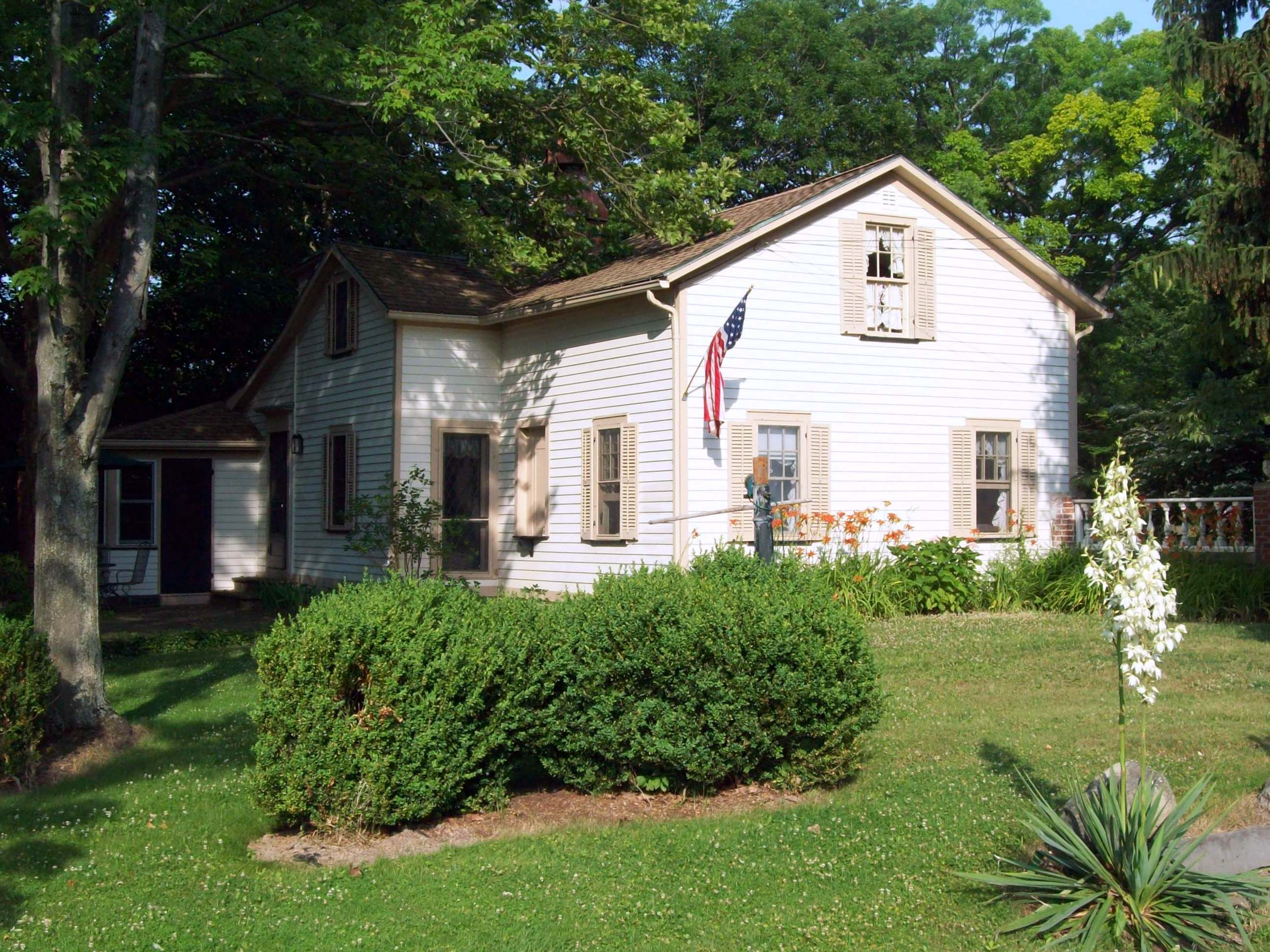 Bryant Fleming House, Wyoming, NY, July 2011N